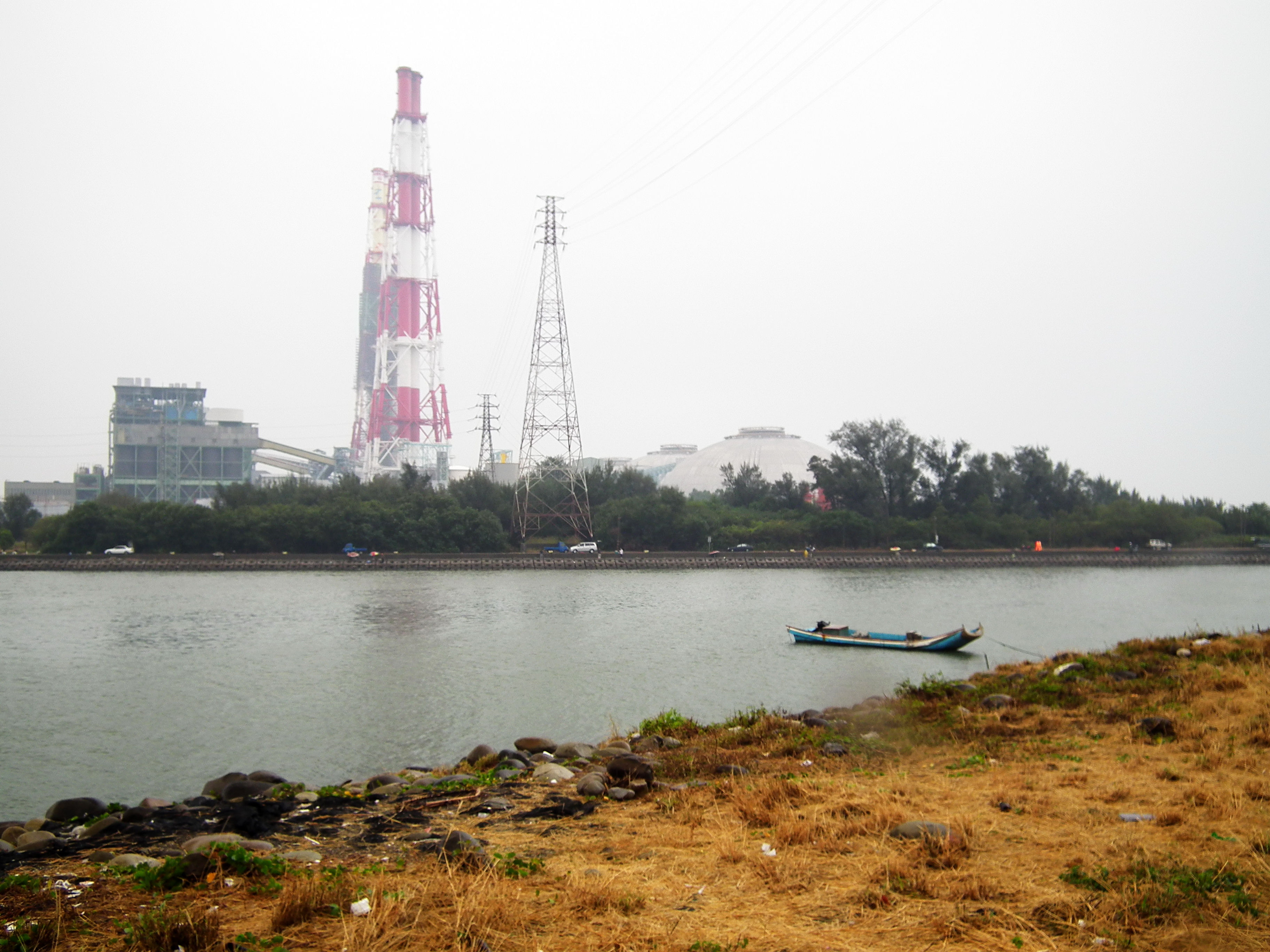 Hsinta Power Statiton 興達發電廠